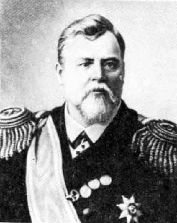 Dmitry Gustavovich von Fölkersam (1846-1905), Admiral in the Imperial Russian Navy